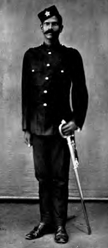 Jamadar (NCO) of the Bombay City Police 1910s